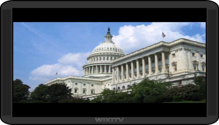 Aspect Ratio 4:3 letterbox stretched